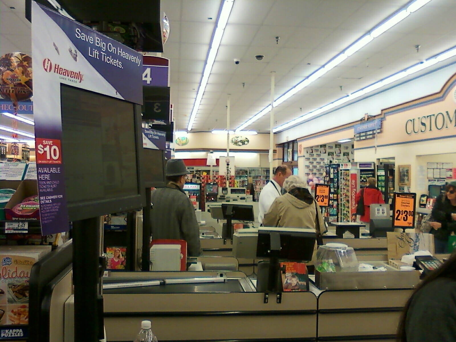 Checkout lanes inside of a Save Mart supermarket at 200 Country Club Gate Center, Pacific Grove, California. This photograph was taken with a Samsung Reclaim SPH-m560 mobile phone camera and edited (contrast and color balance) using ArcSoft PhotoStudio 5.5'